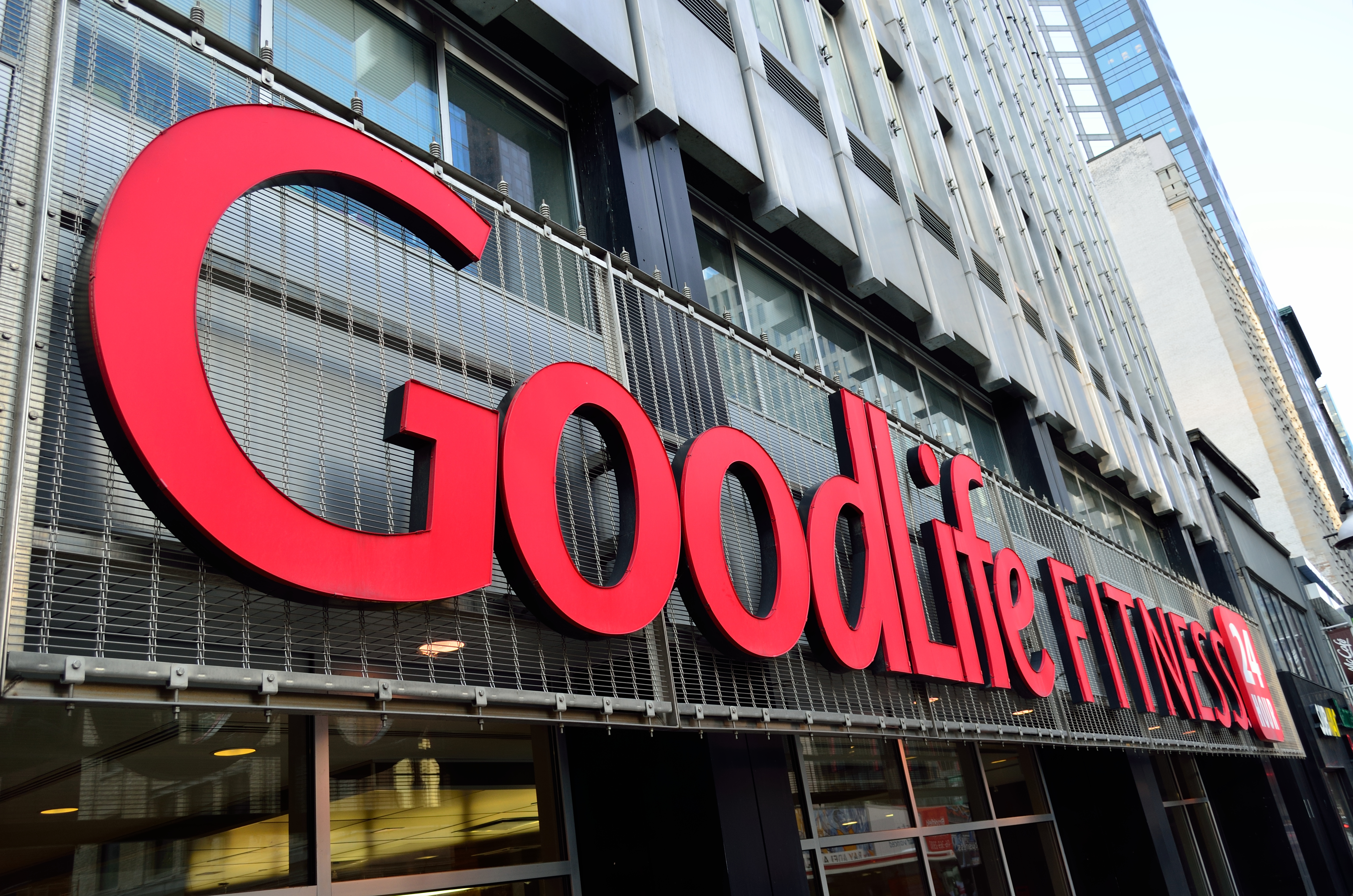 GoodLife Fitness - Address: 137 Yonge Street, Toronto, ON M5C 1W6